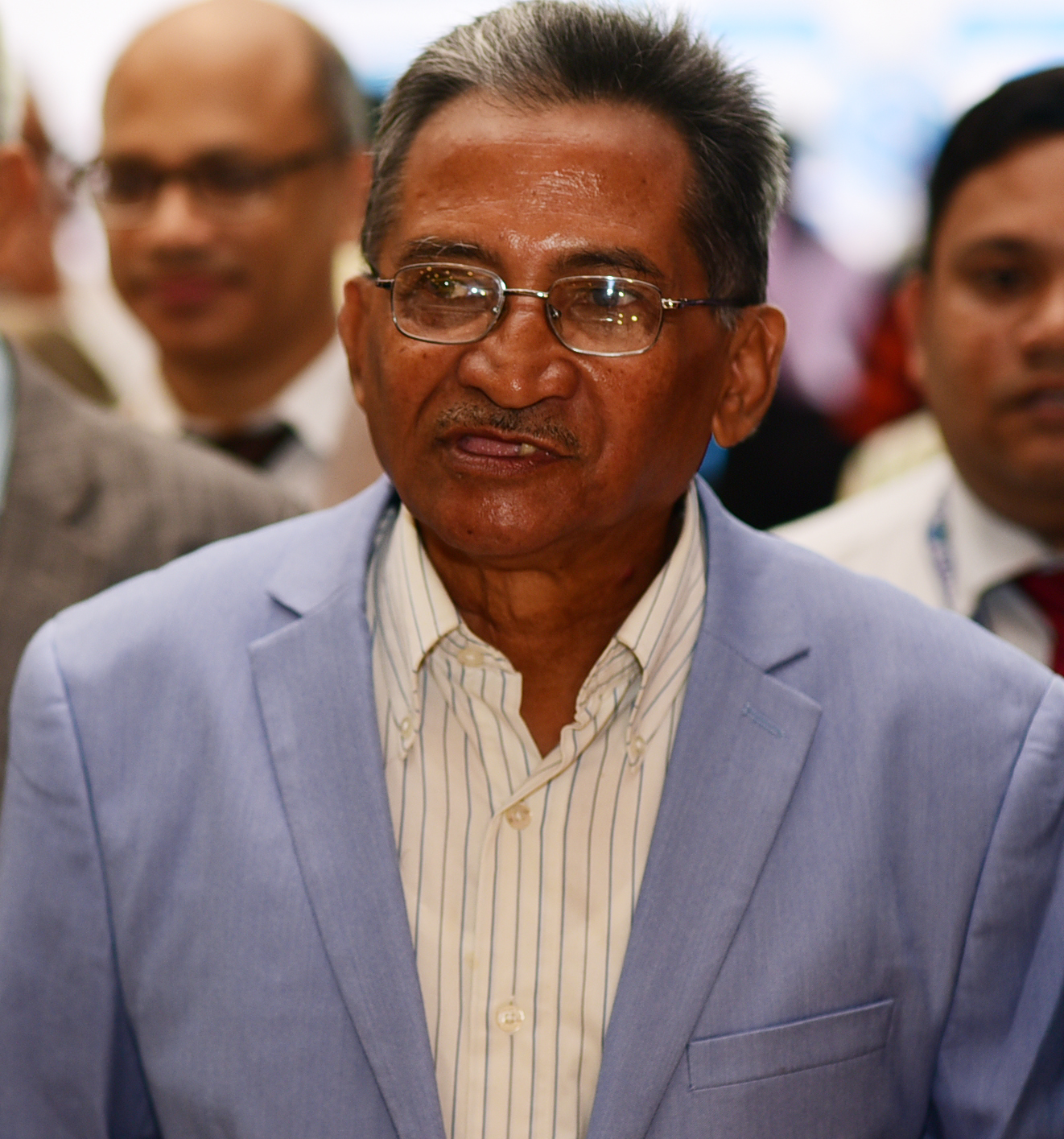 Kazi Shahidullah is a Bangladeshi academic. He served as the vice-chancellor of the National University of Bangladesh during 2009-2013.